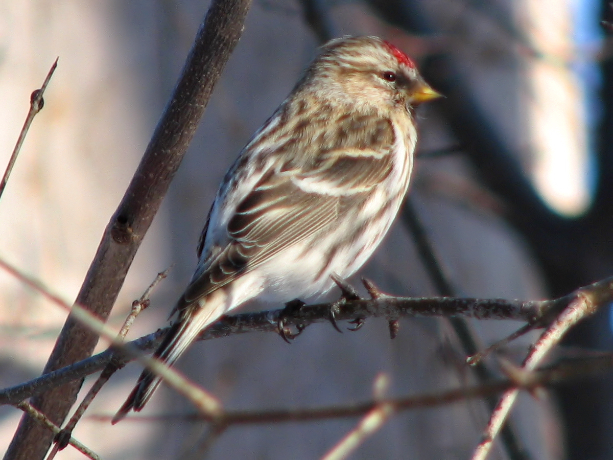 Common Redpoll (Carduelis flammea) taken in Ottawa, Ontario